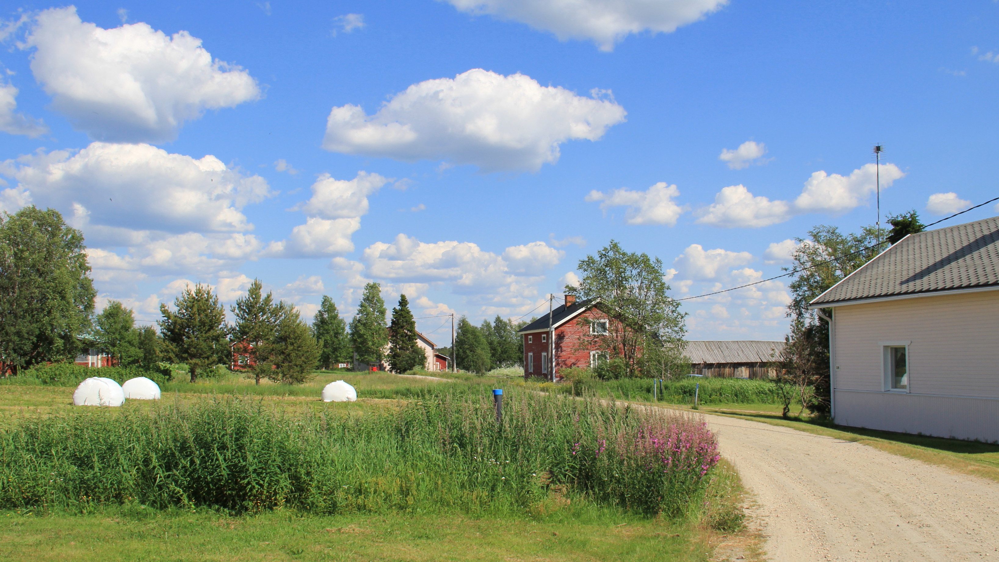 Pelovuoma village by the old village road, Enontekiö, Finland.